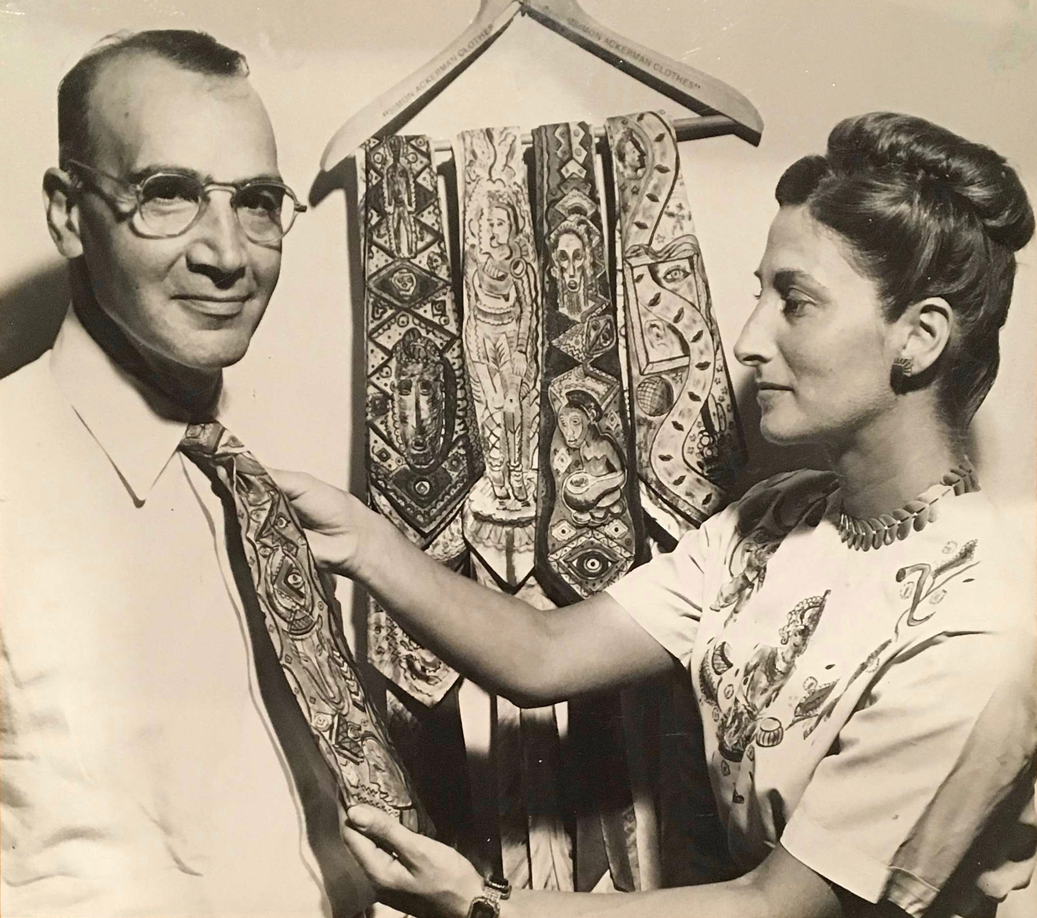 Stephen Sacklarian and wife Ayne presenting set of hand-painted ties by Sacklarian at an artist exhibition in Philadelphia, PA.